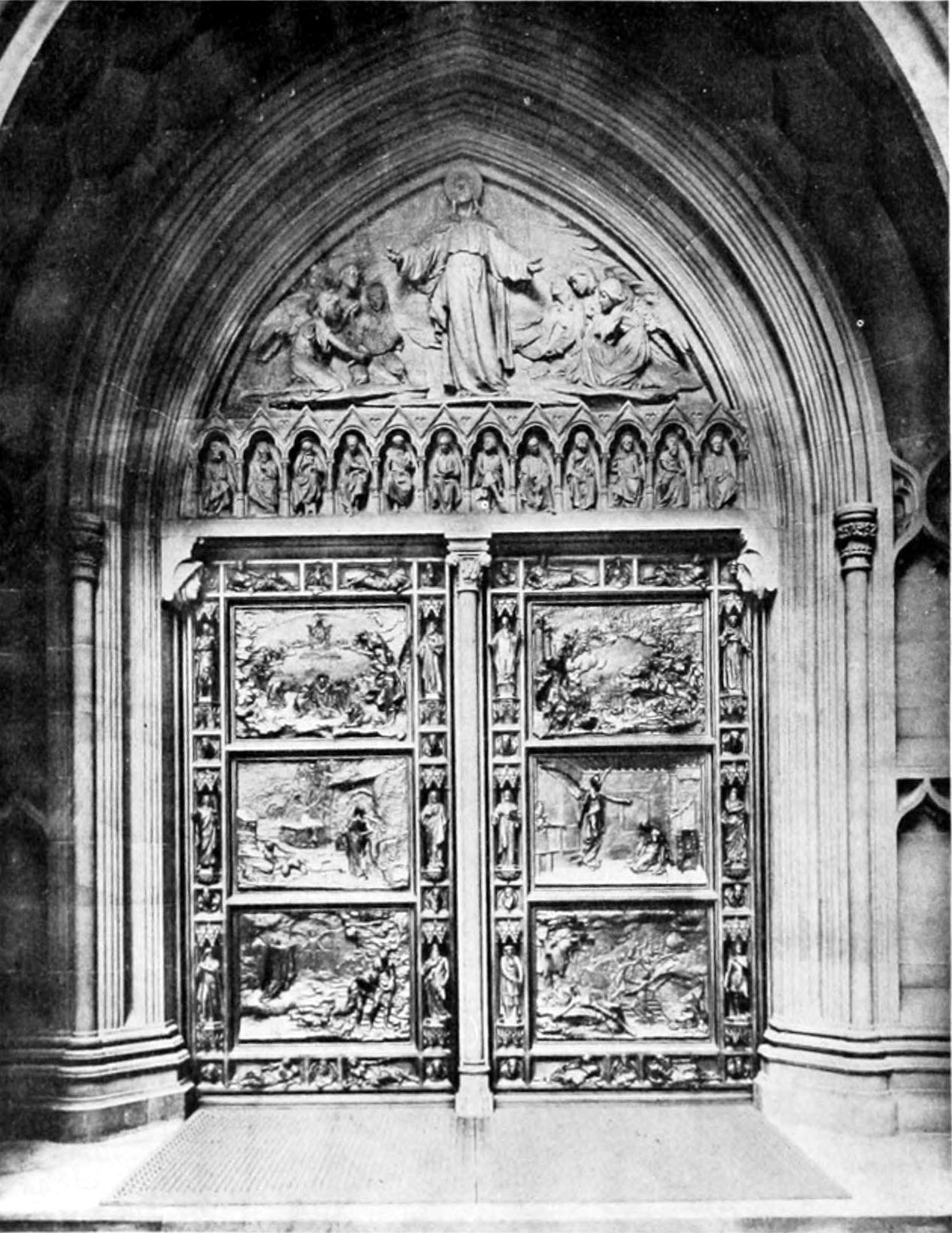 East doors of Trinity Church executed by Karl Bitter